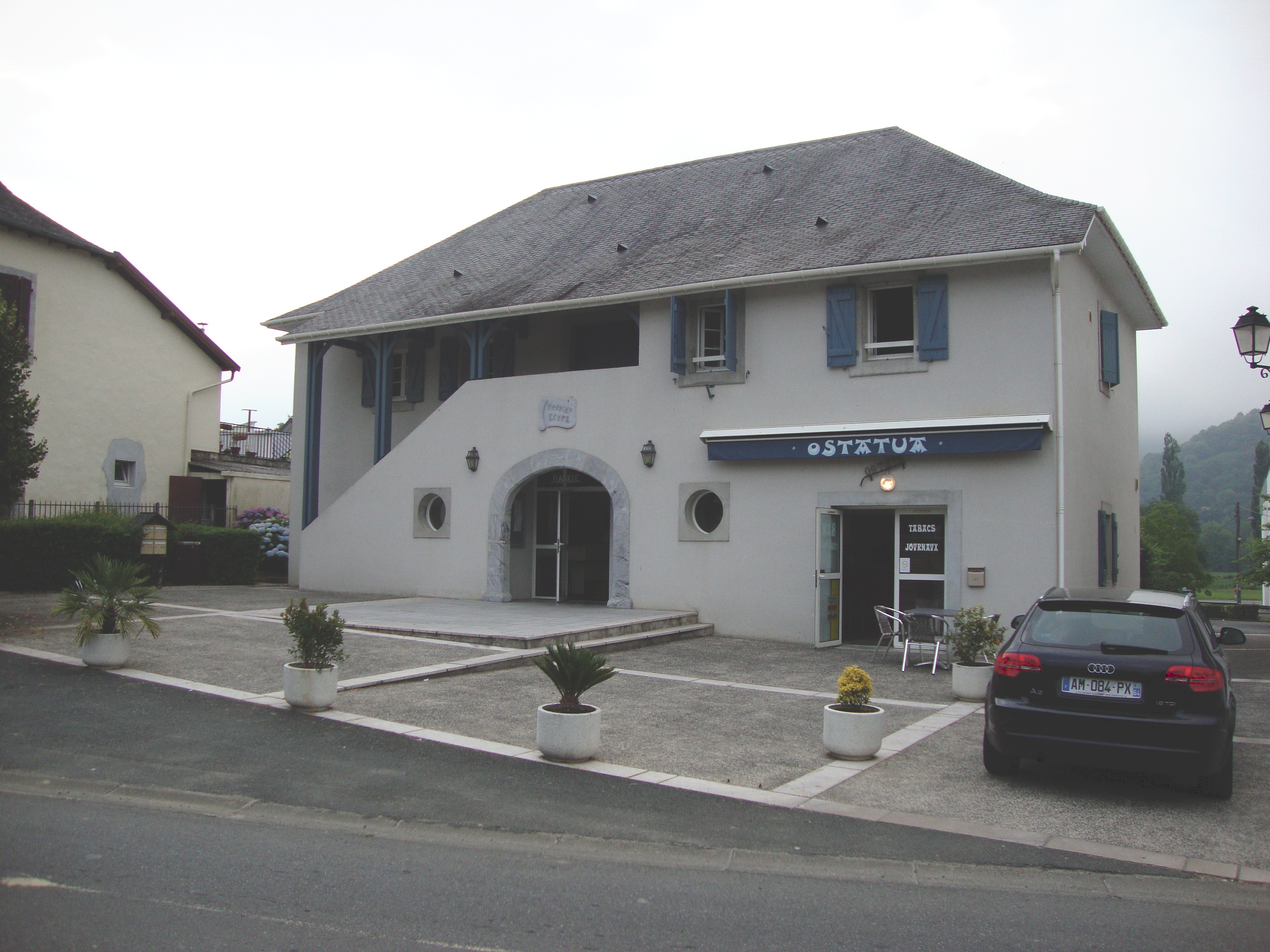 Garindein (Pyr-Atl, Fr) town hall (left side of the building)